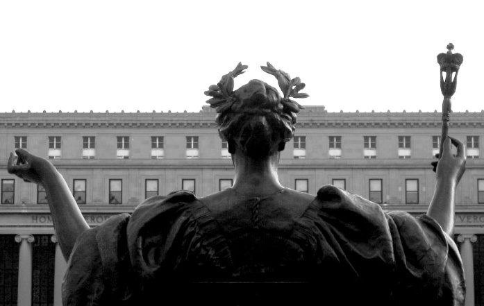 Alma Mater by Daniel Chester French statue looking toward Butler Library, Columbia University